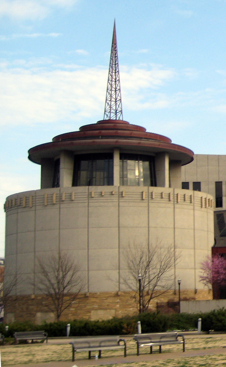 Country Music Hall of Fame and Museum Rotunda, Nashville. Original image was cropped and contrast corrected by uploader. See source link.